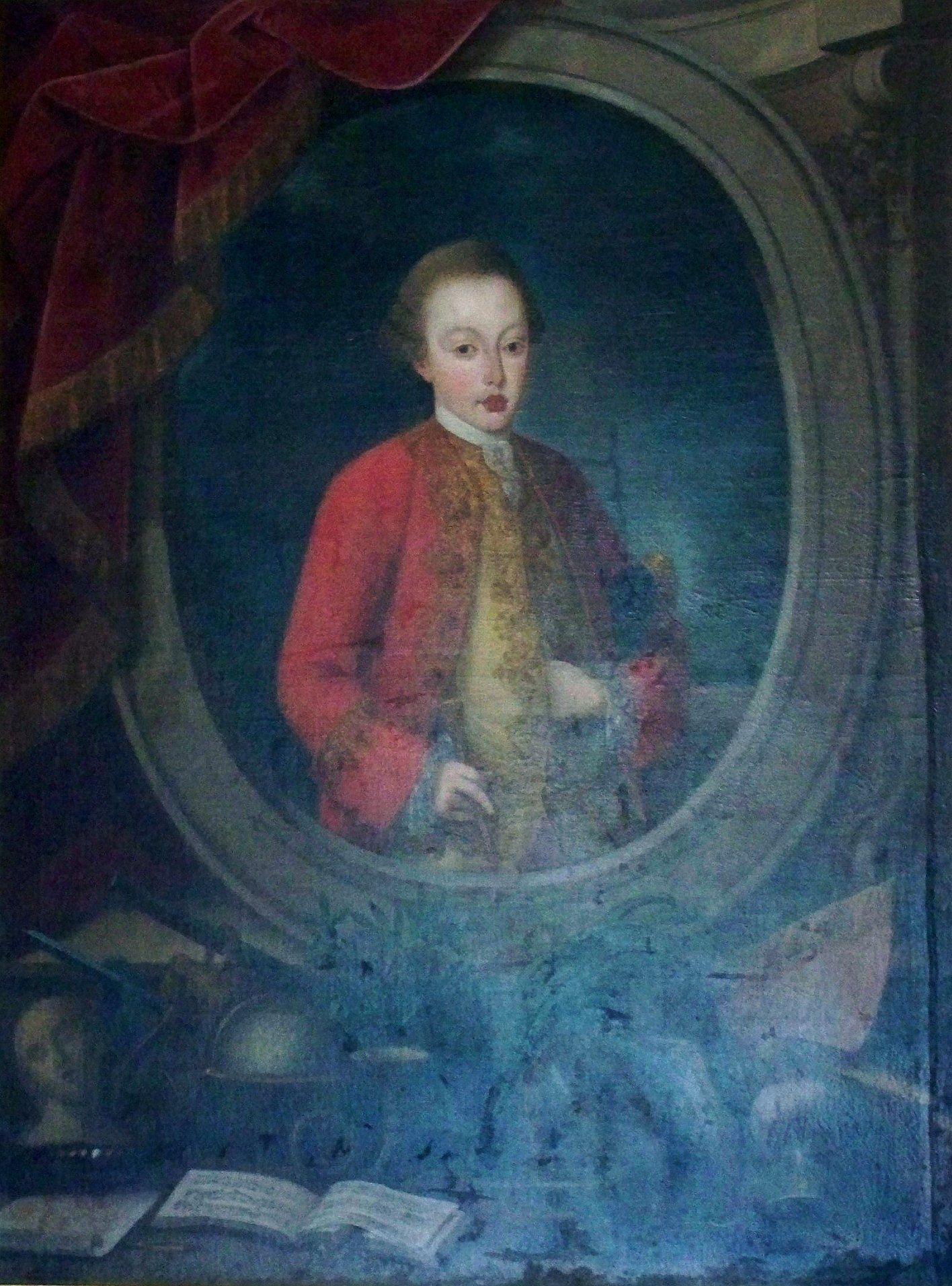 Portrait of Infante José, Prince of Beira (1761-1788)